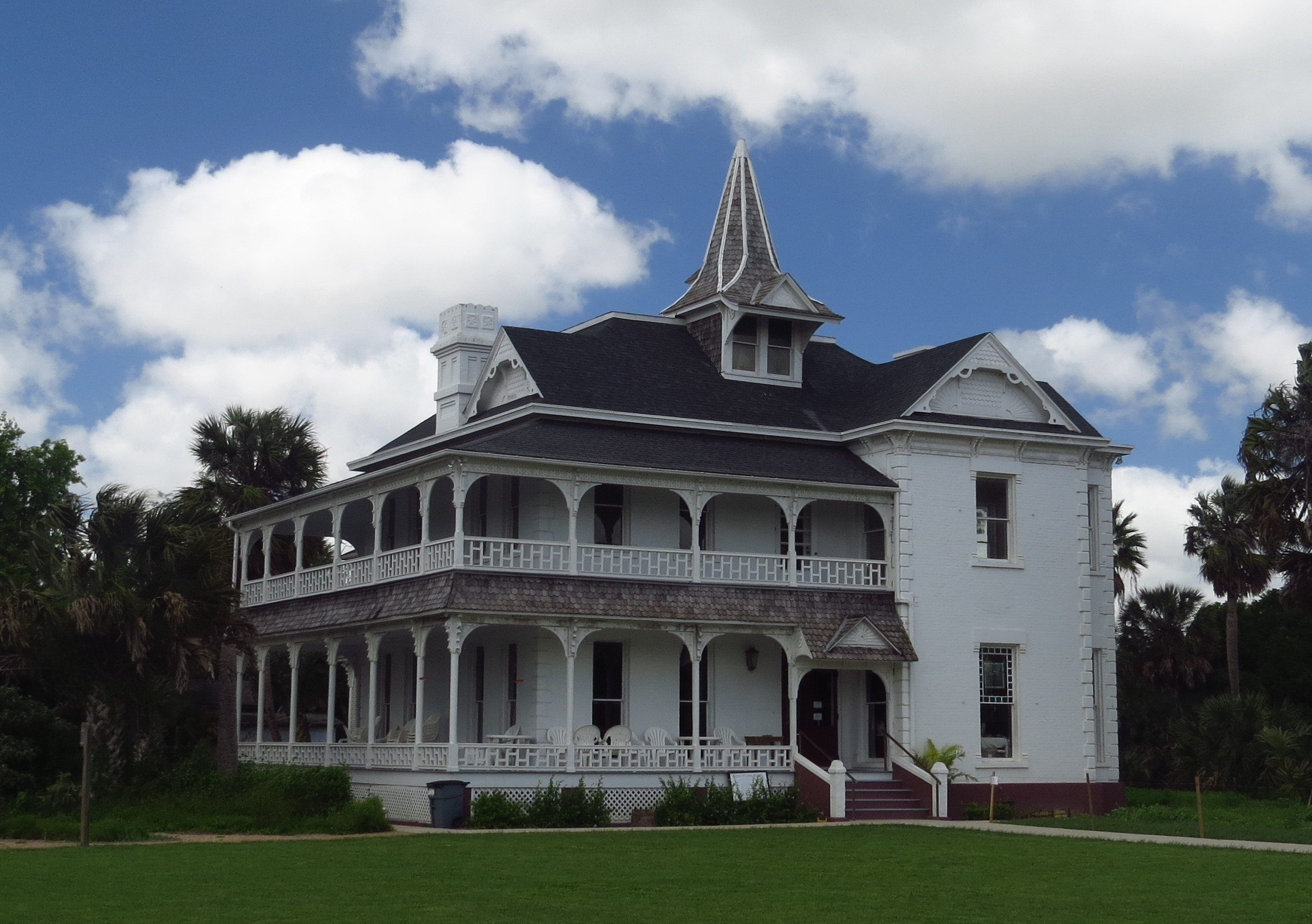 Sabal Palm Sanctuary, south of Brownsville, Texas. Operated by the Gorgas Science Foundation and the Audubon Society.